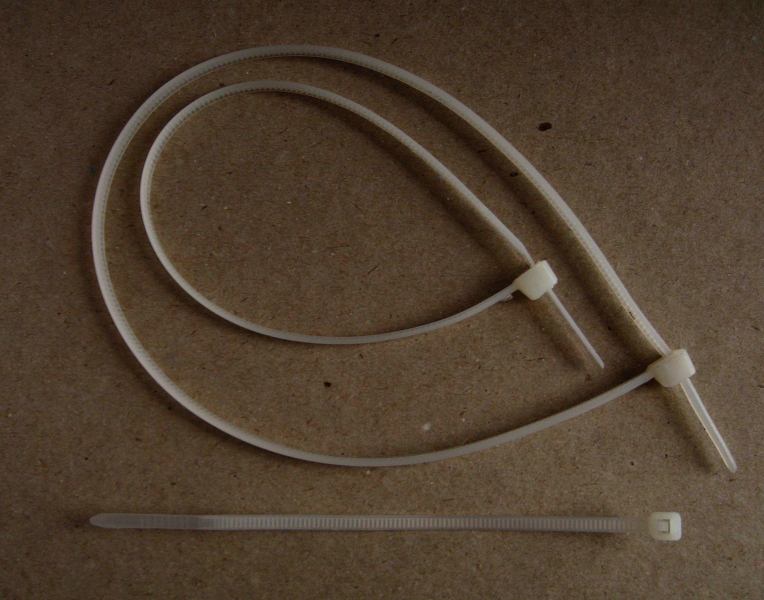 Cable tiee / Cable ties / Cable strips